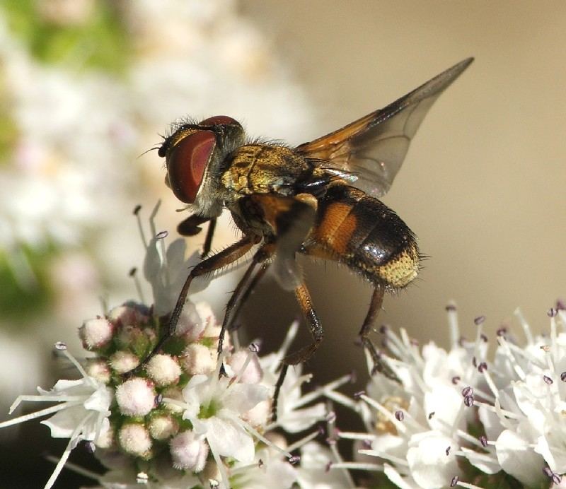 Ectophasia sp., family Tachinidae